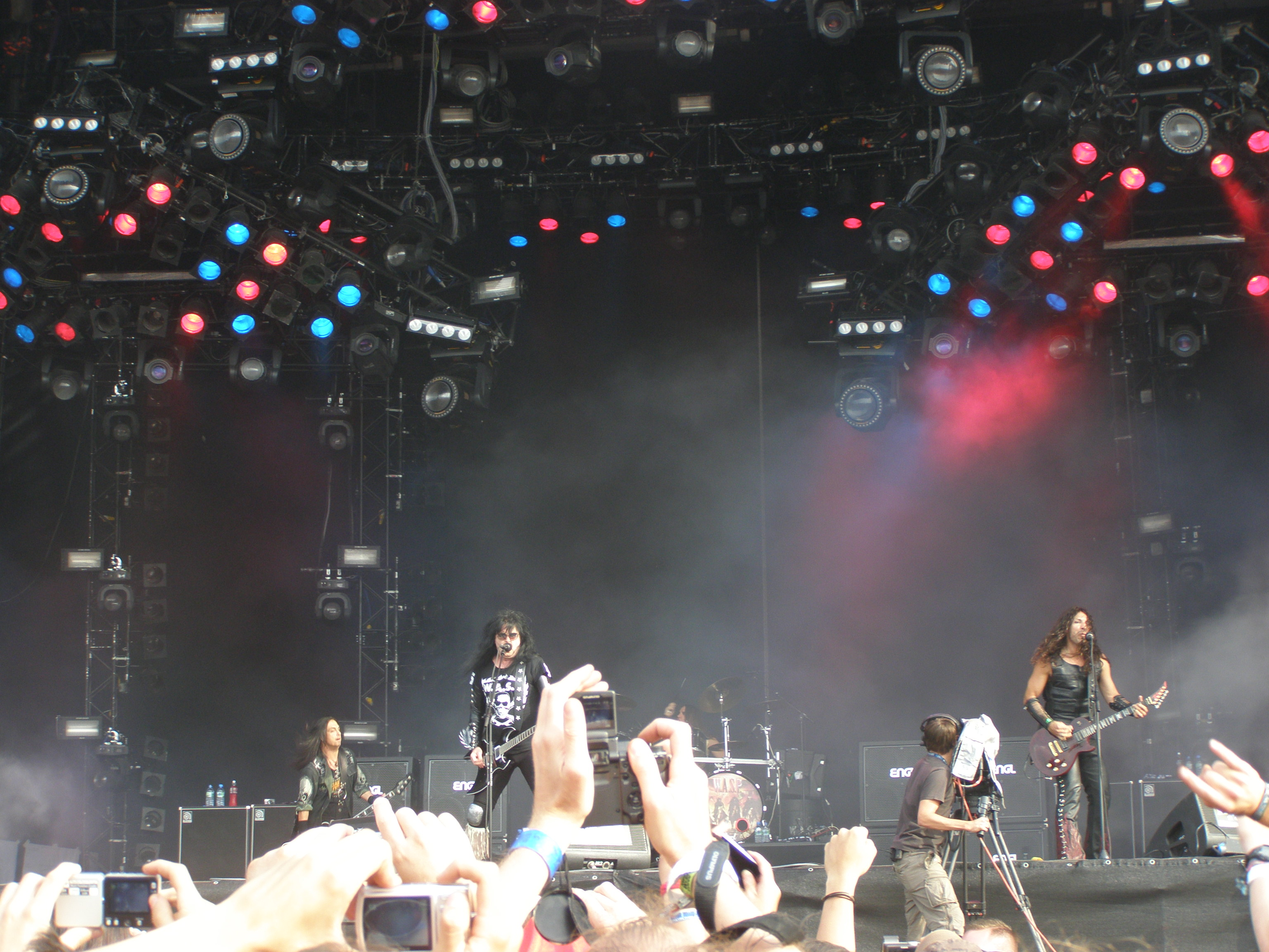 WASP live in Wacken